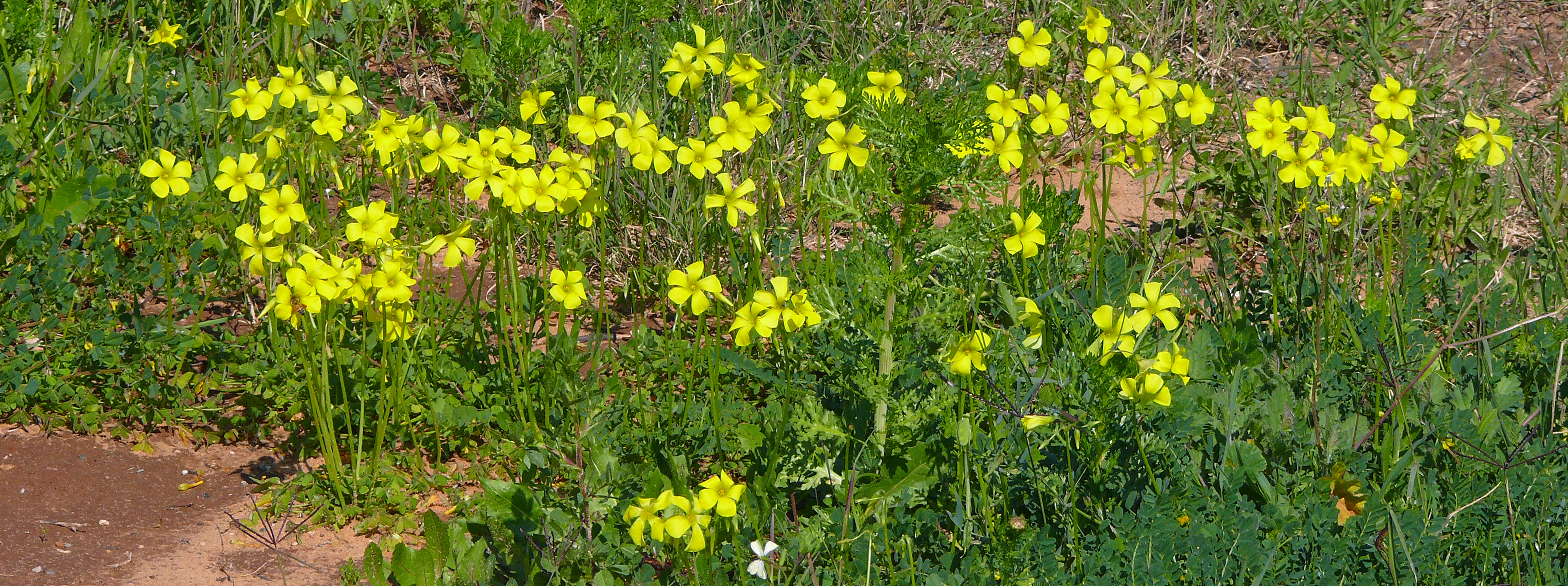 Oxalis pes-caprae